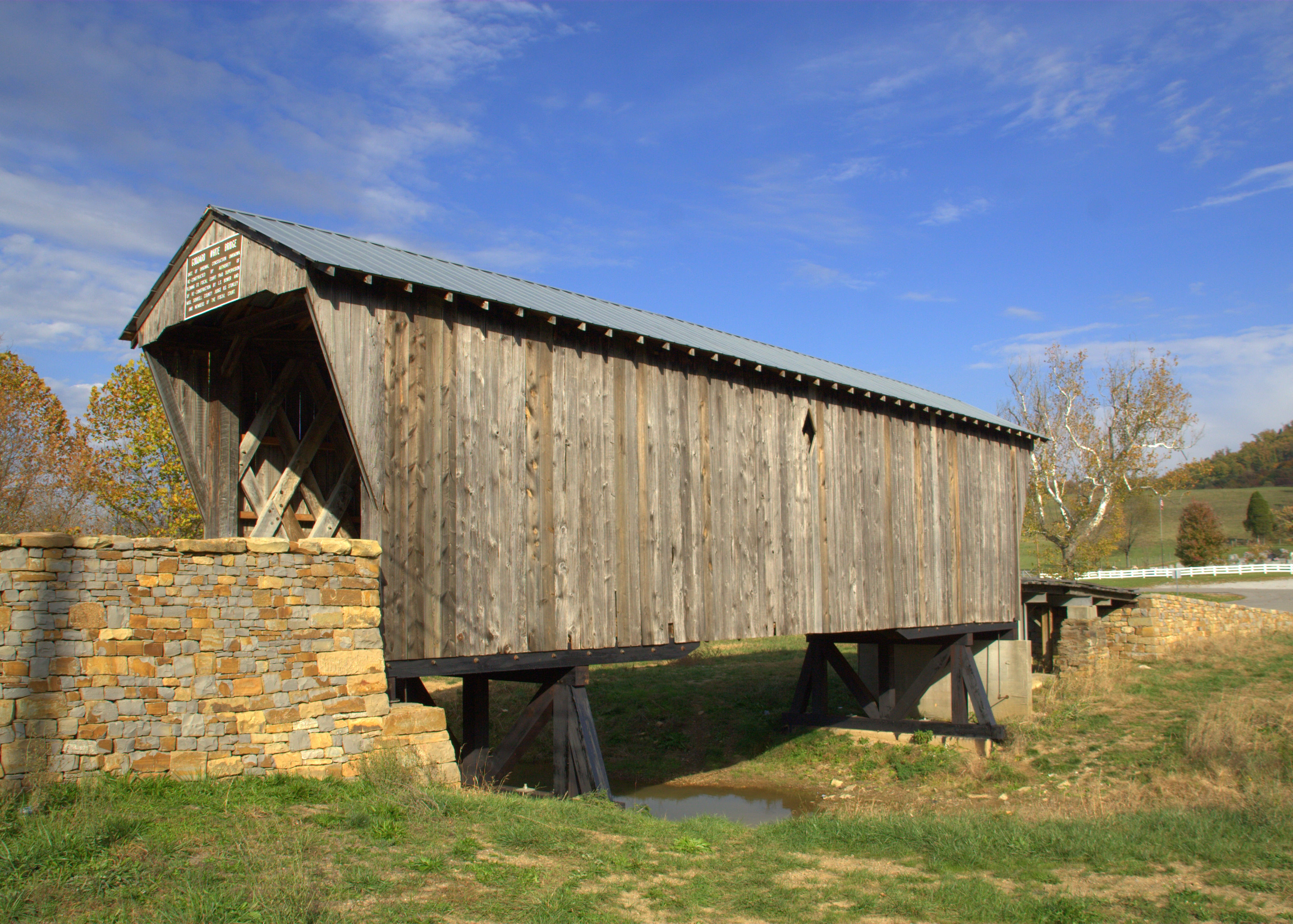 Goddard Bridge in Fleming County, Kentucky. Photo by Greg Hume